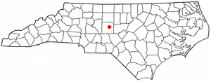 Category:North Carolina Dot Maps